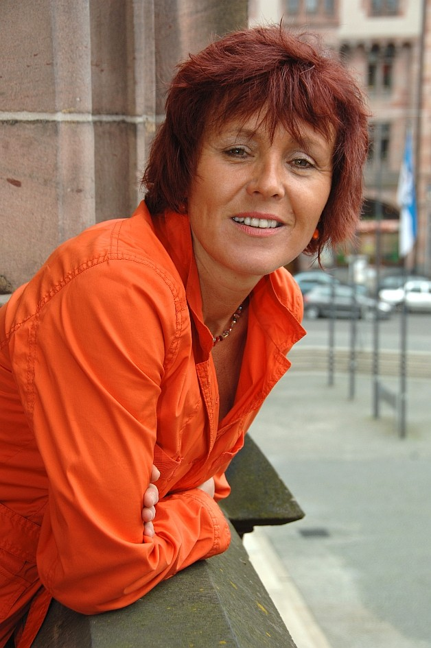 Charlotte Britz